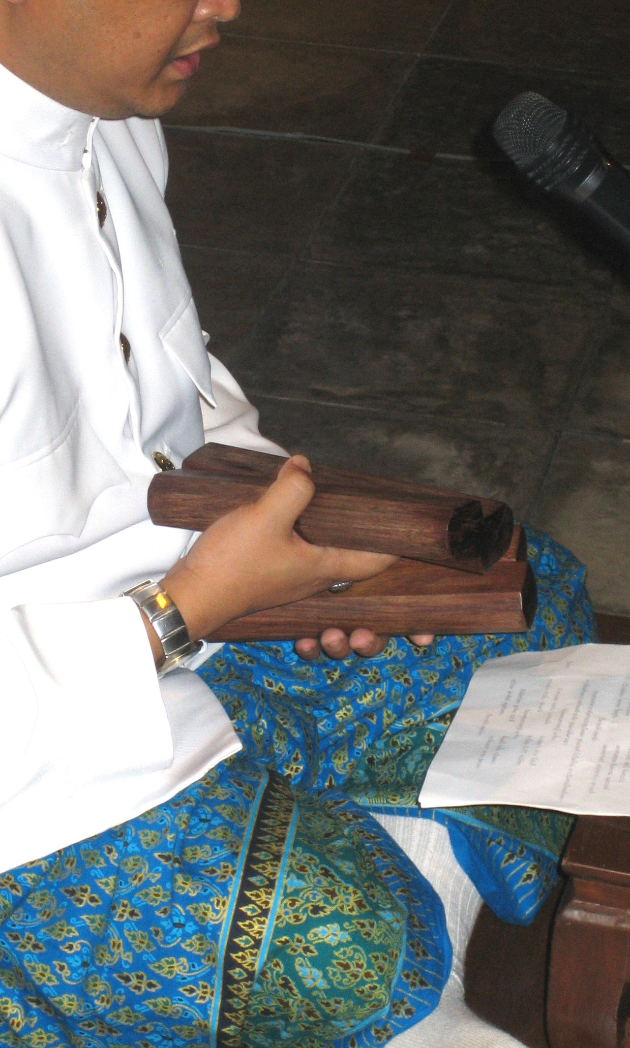 Chris Baker, sepha performance, showing krap